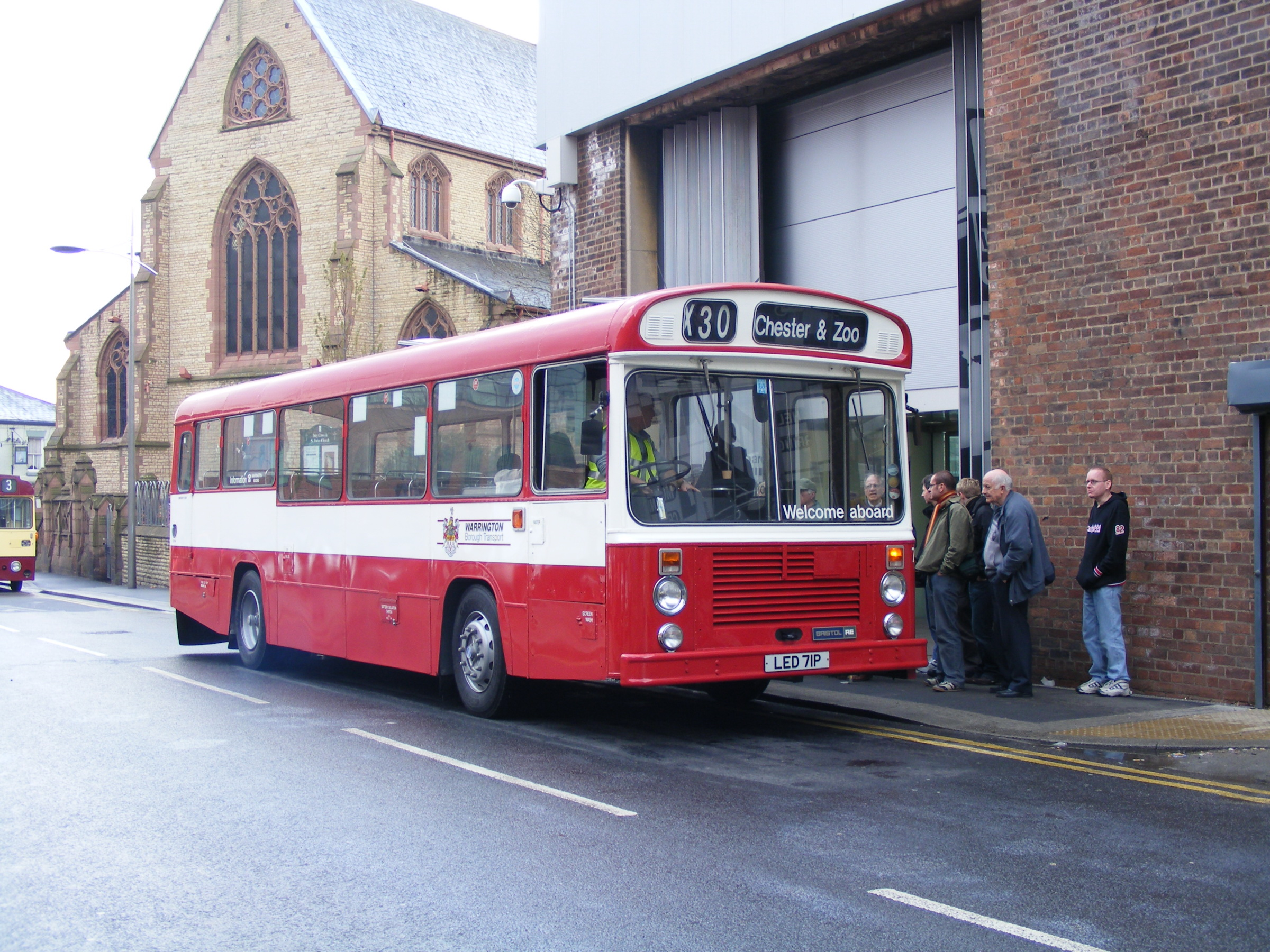 Warrington Borough Transport 71 LED 71P, an East Lancs-bodied Bristol RE which lasted 2 decades with Warrington.